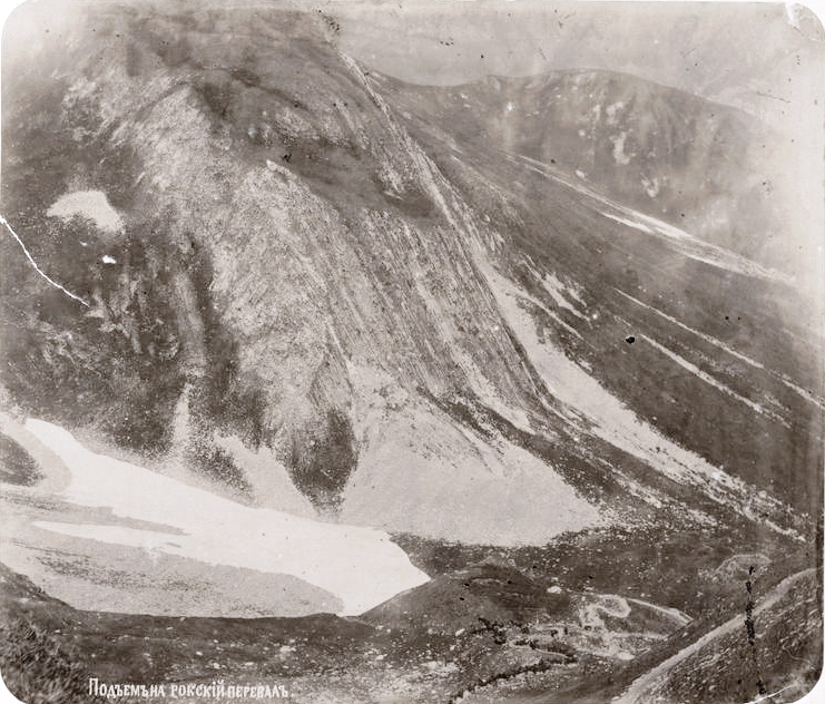 Summit of Roki Pass.